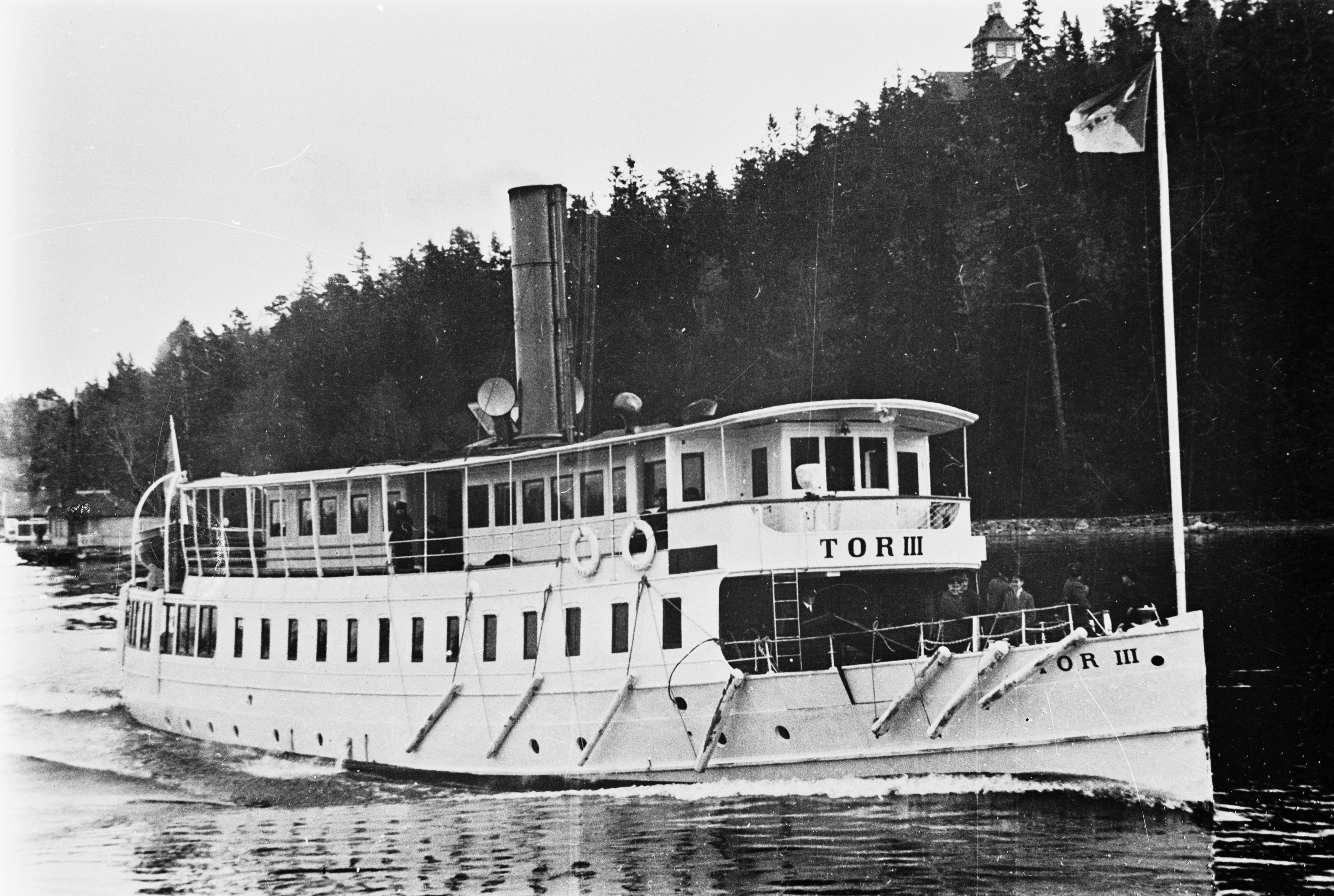 Levererad av William Lindbergs Verkstads- och Varfs AB som Wermdö III till Wermdö Ångfartygs AB, Stockholm. Trafik på traden Stockholm - Kummelnäs - Tynningö - Värmdö. Övergår 1919 till Rederi AB Stockholm - Wermdö, Stockholm när de båda rederierna slås ihop. Omdöpt till Tor III.